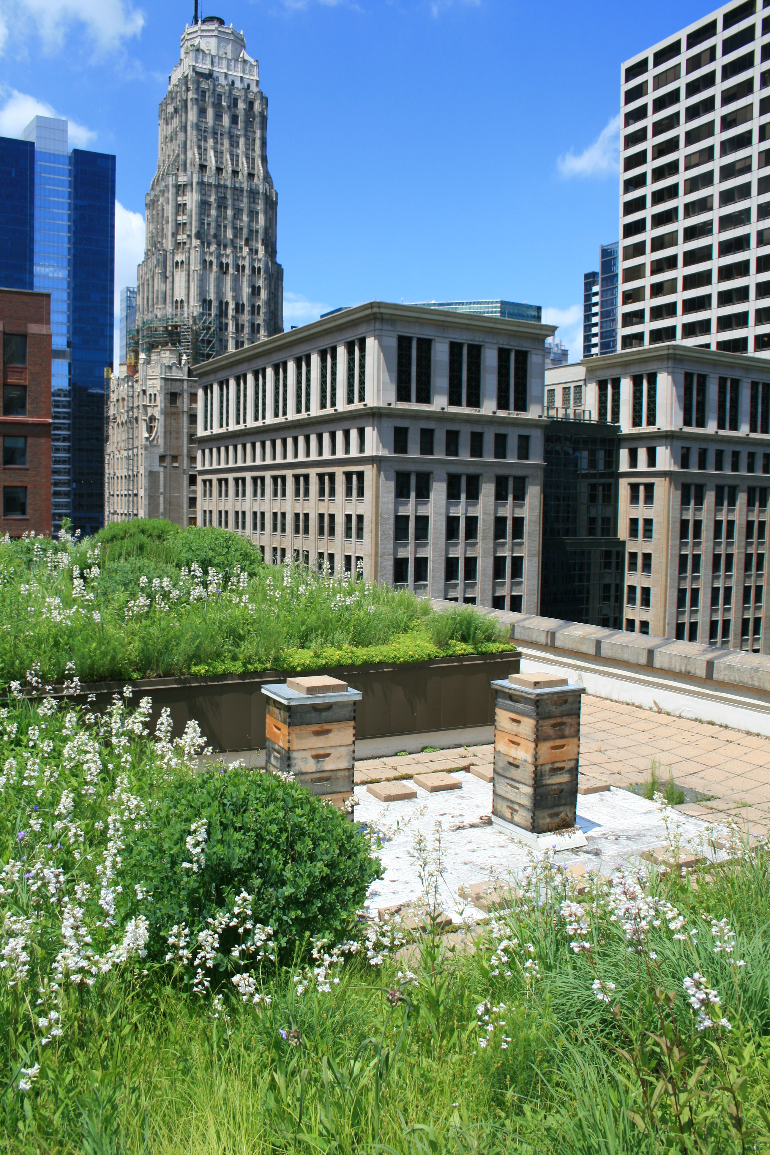 image of Chicago City Hall pilot green roof project